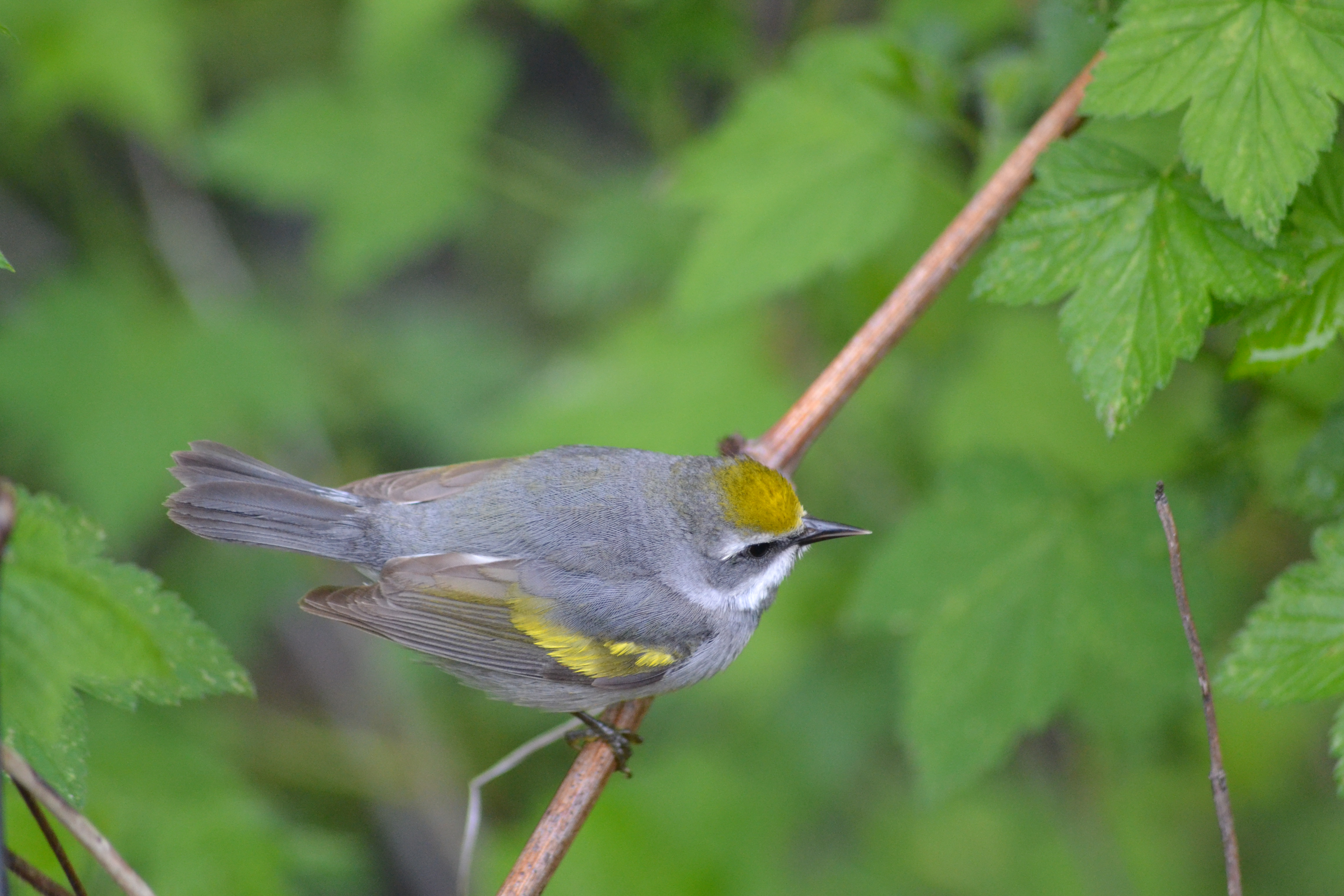 Magee Marsh Wildlife Area, Oak Harbor, Ohio